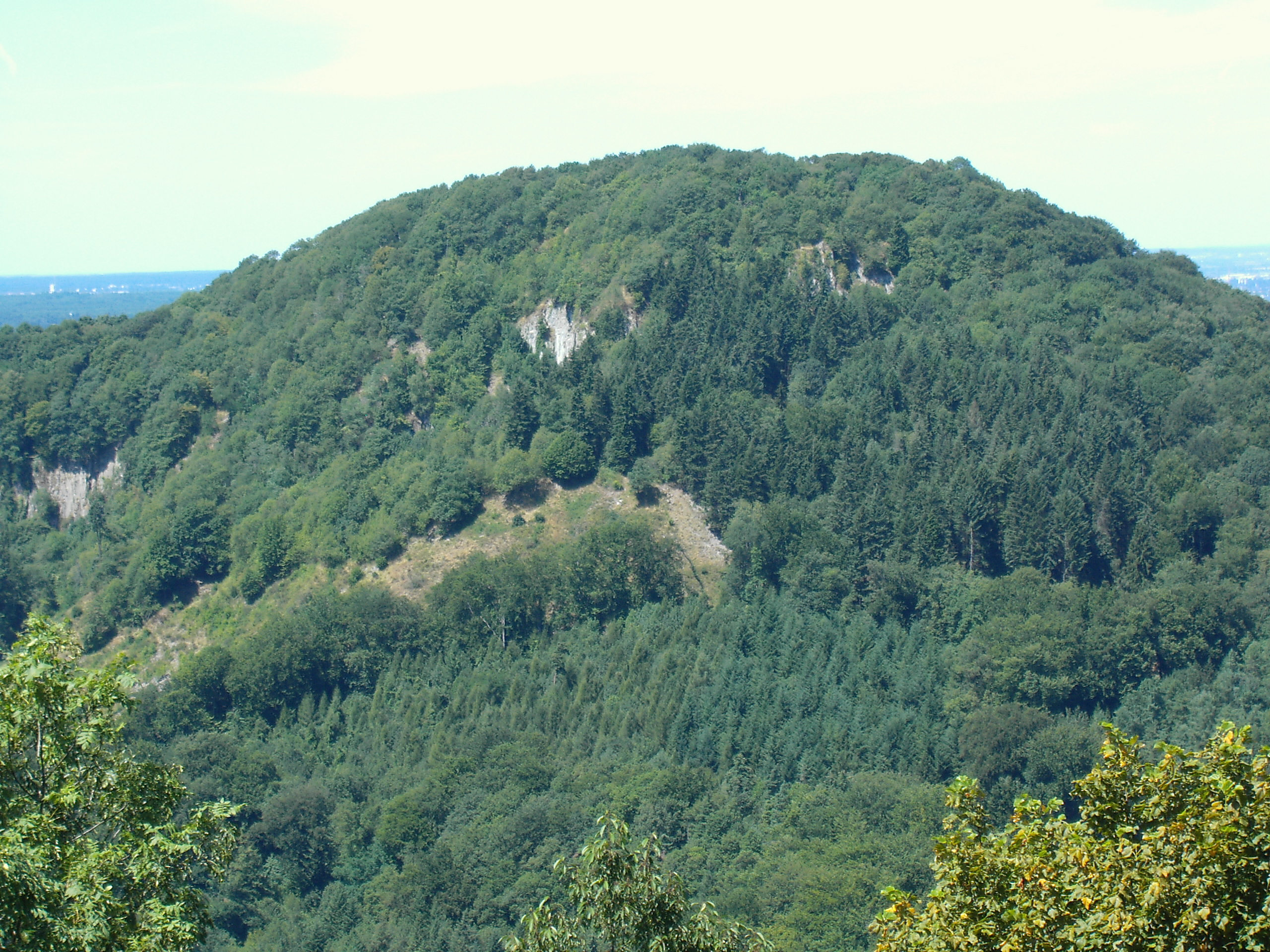 The Wolkenburg seen from Großer Breiberg. Both hills are located in the Siebengebirge.